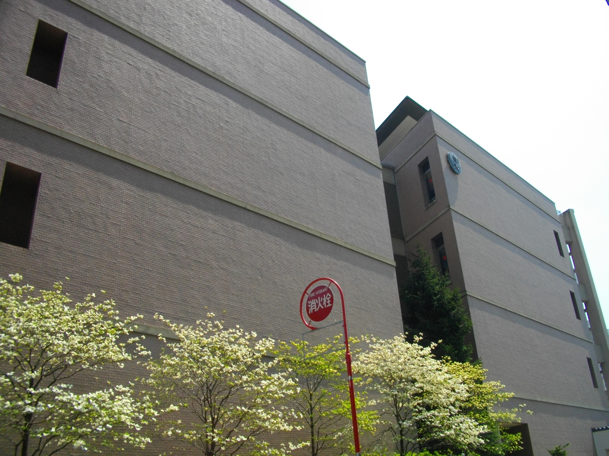 Gyosei Elementary School